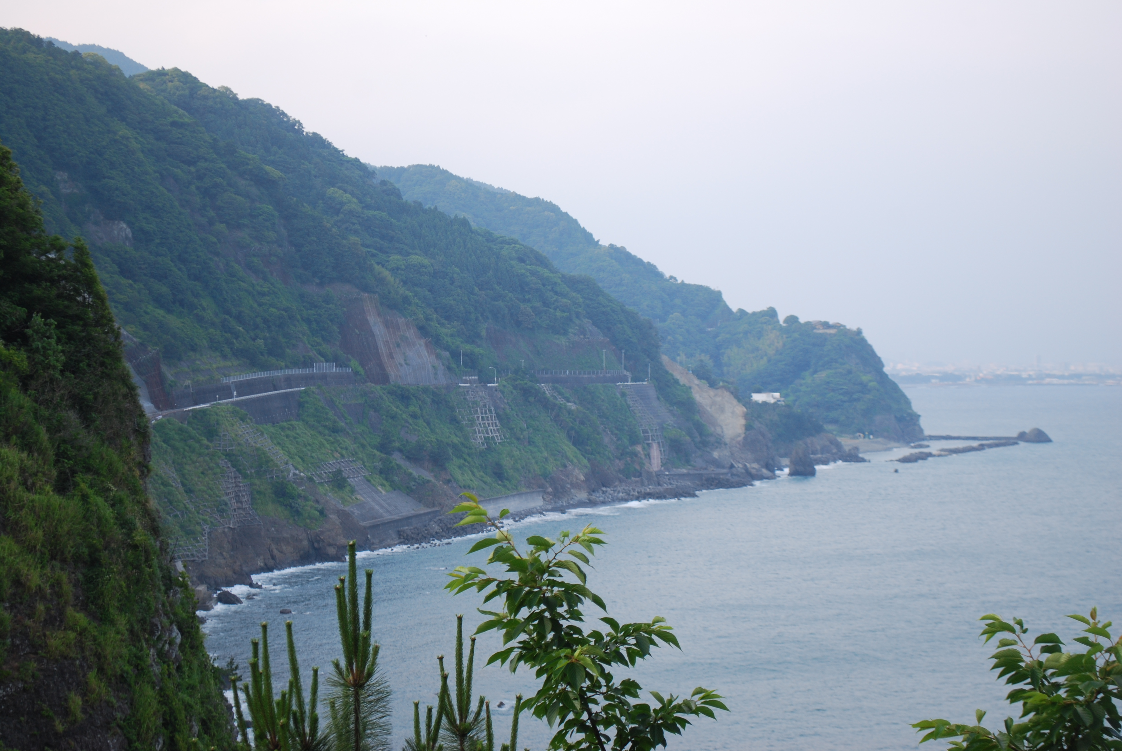 Okuzure-shore,Yaizu-city,Japan